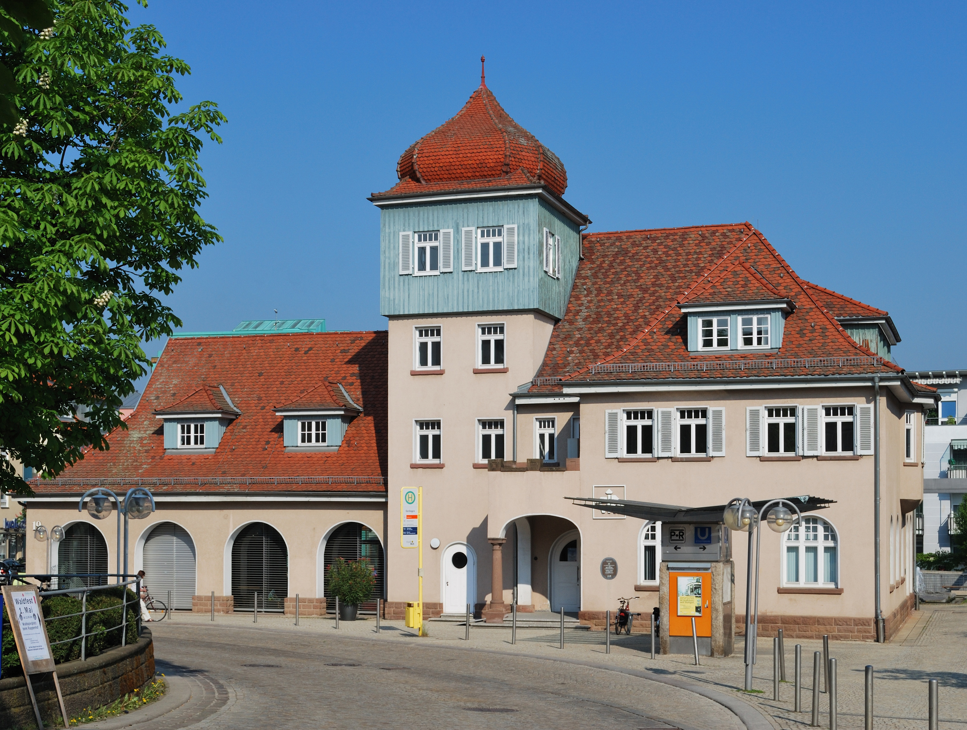 The former fire station of Gerlingen in Southern Germany. The building serves today as an adult educational centre.